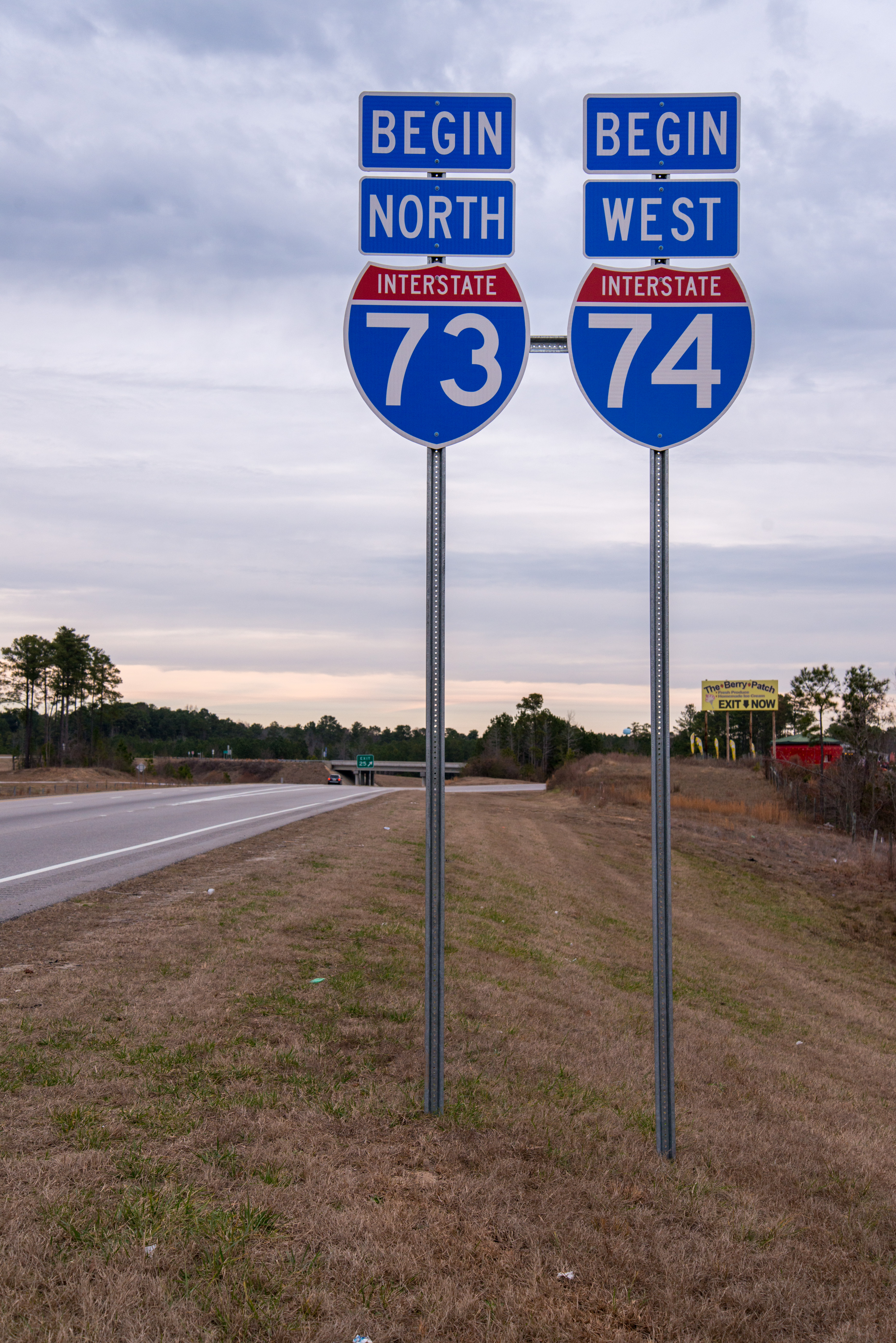 Begin of I-73/I-74, along US 220 at exit 25, south of Ellerbe, North Carolina.